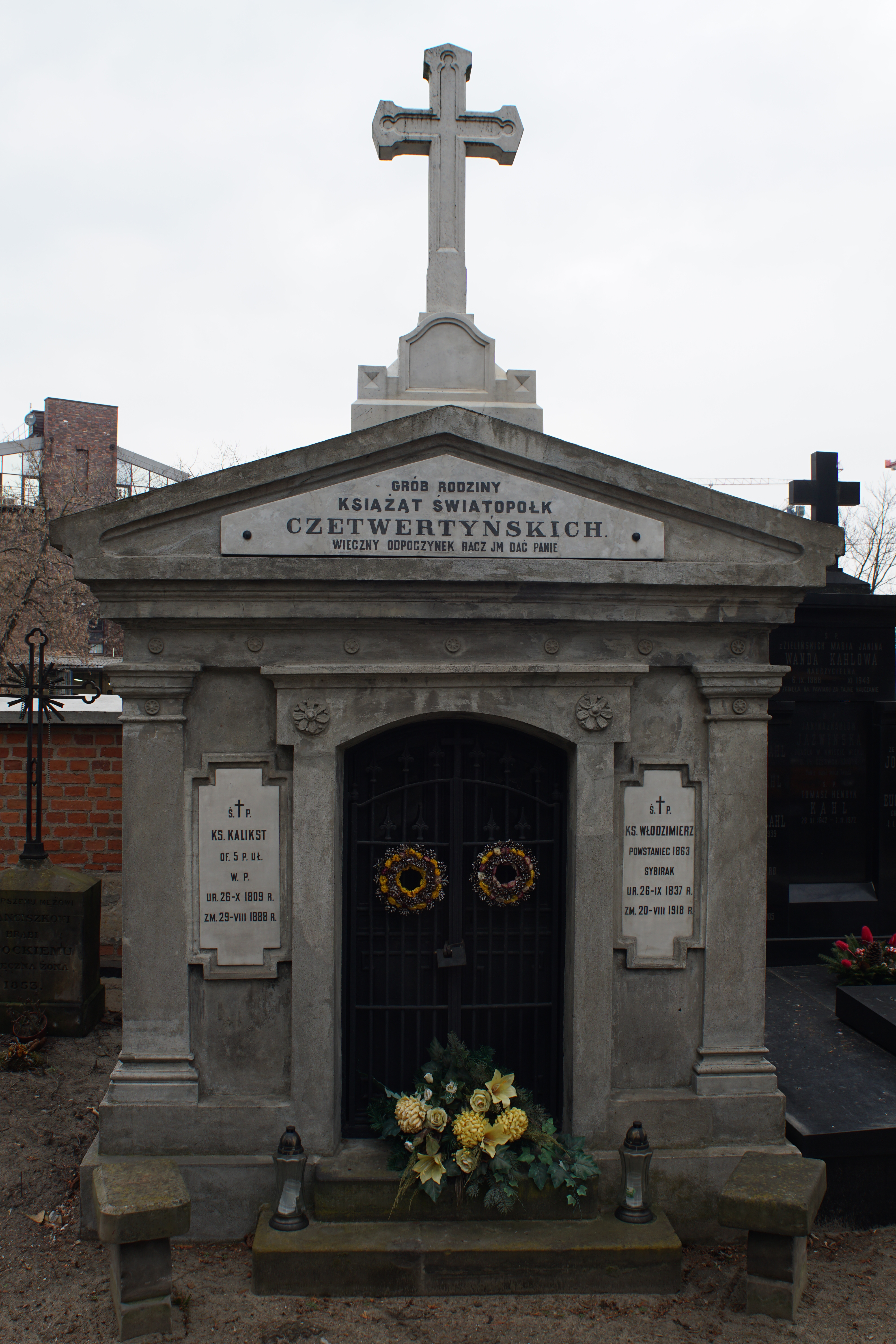 The grave of Włodzimierz Czetwertyński-Światopełek at the Powązki Cemetery (section 2, row 1, grave 18, 19)